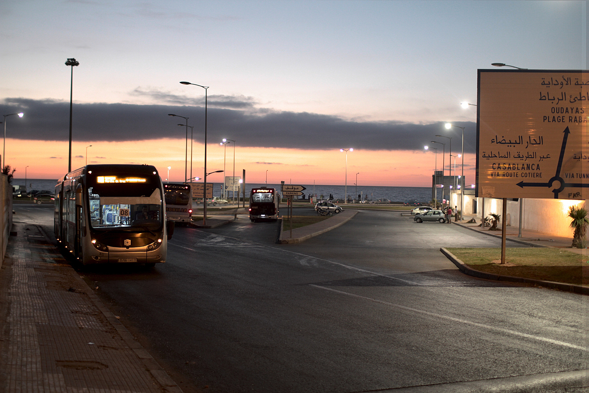 A ZhongTong bus of the Rabat public transport system waits at its terminus near the South Atlantic. Rabat, 11th july 2012